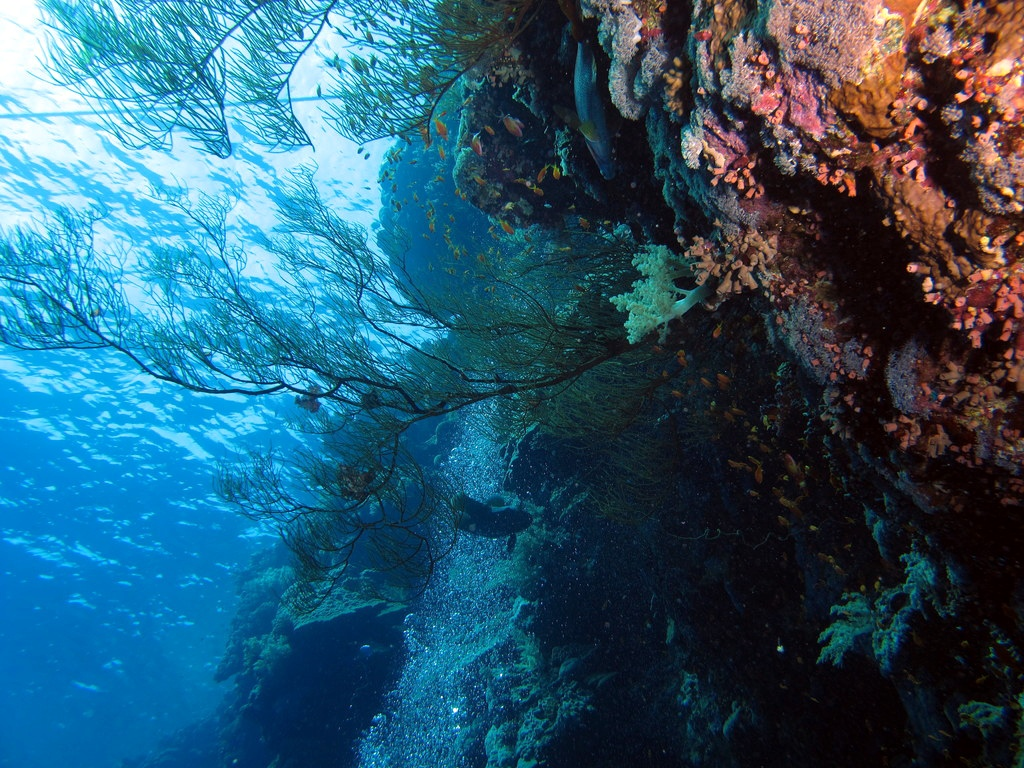 Corrals at Elphinstone Reef, Red Sea, Egypt